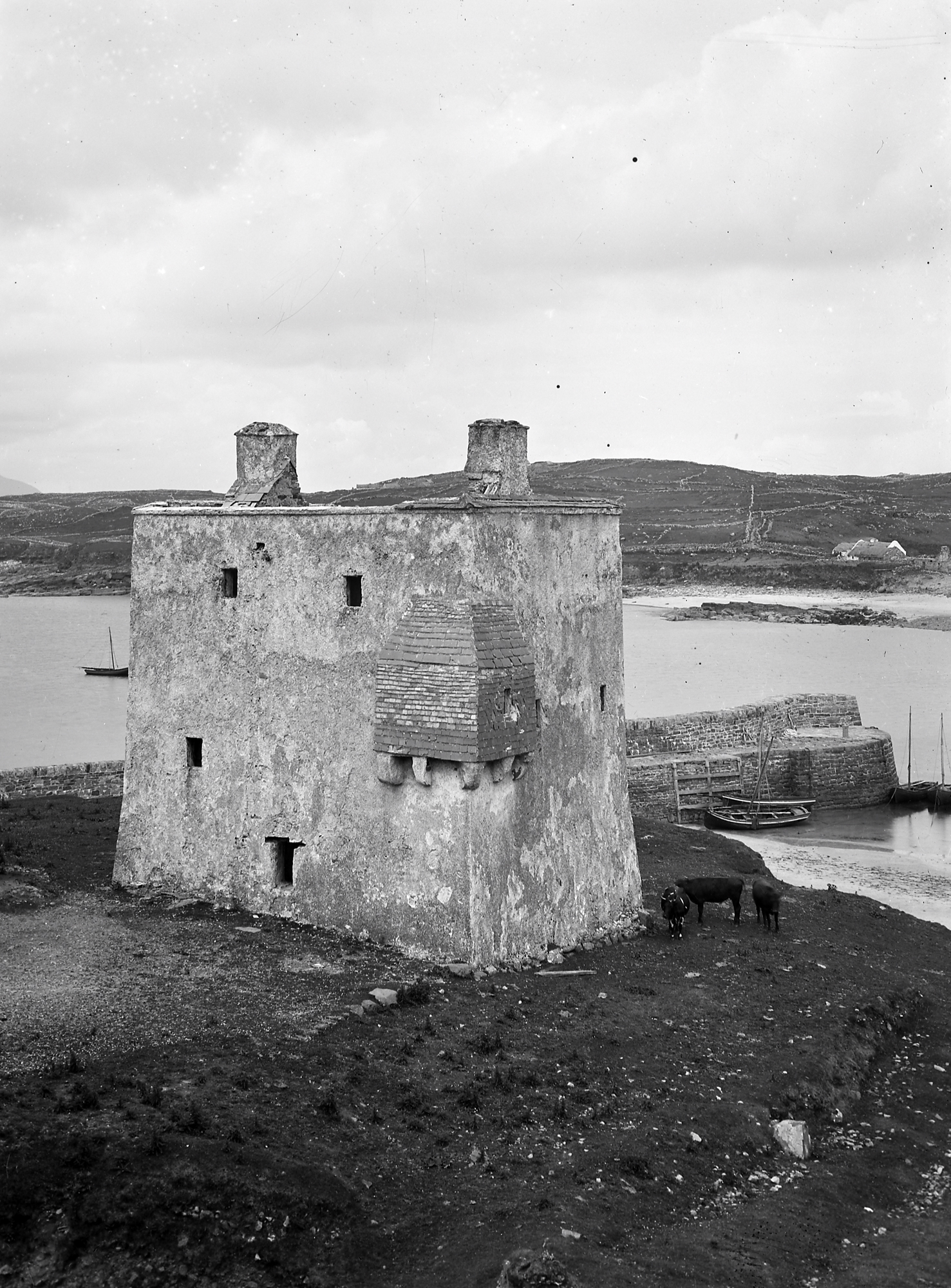 Animals grazing near an unusual structure, rectangular in shape with a small balcony on one corner, flat roof and two chimneys. A pier and sea/lake visible in the background. Fair play to you guys for spotting this one so quickly, I remember the other photo but did not put two and two together. Know as Gráinne Mhaol Castle - On a rocky headland at the harbour on Clare Island is the square tower which served as Granuaile’s (Grace O'Malley’s) castle. It is said that the Pirate Queen’s head is buried near this castle. This location was strategically vital, as it helped her control the waters of Clew Bay and the seas off the west coast of Mayo. We hear this is an Irish tower house, these type of house were usually designed to a standard plan: rectangular, three stories high with a vault over the ground level and topped by a pitched slate or thatched roof. The main living room is at first-floor level with access to the bartizans. The castle was converted into a police barracks in about 1826, which is probably when the purple slate flashing was added. Photographers: Dillon Family Contributors: Luke Gerald Dillon, Augusta Caroline Dillon Collection: The Clonbrock photographic Collection Date: 1860-1930 NLI Ref: CLON2160 You can also view this image, and many thousands of others, on the NLI’s catalogue at